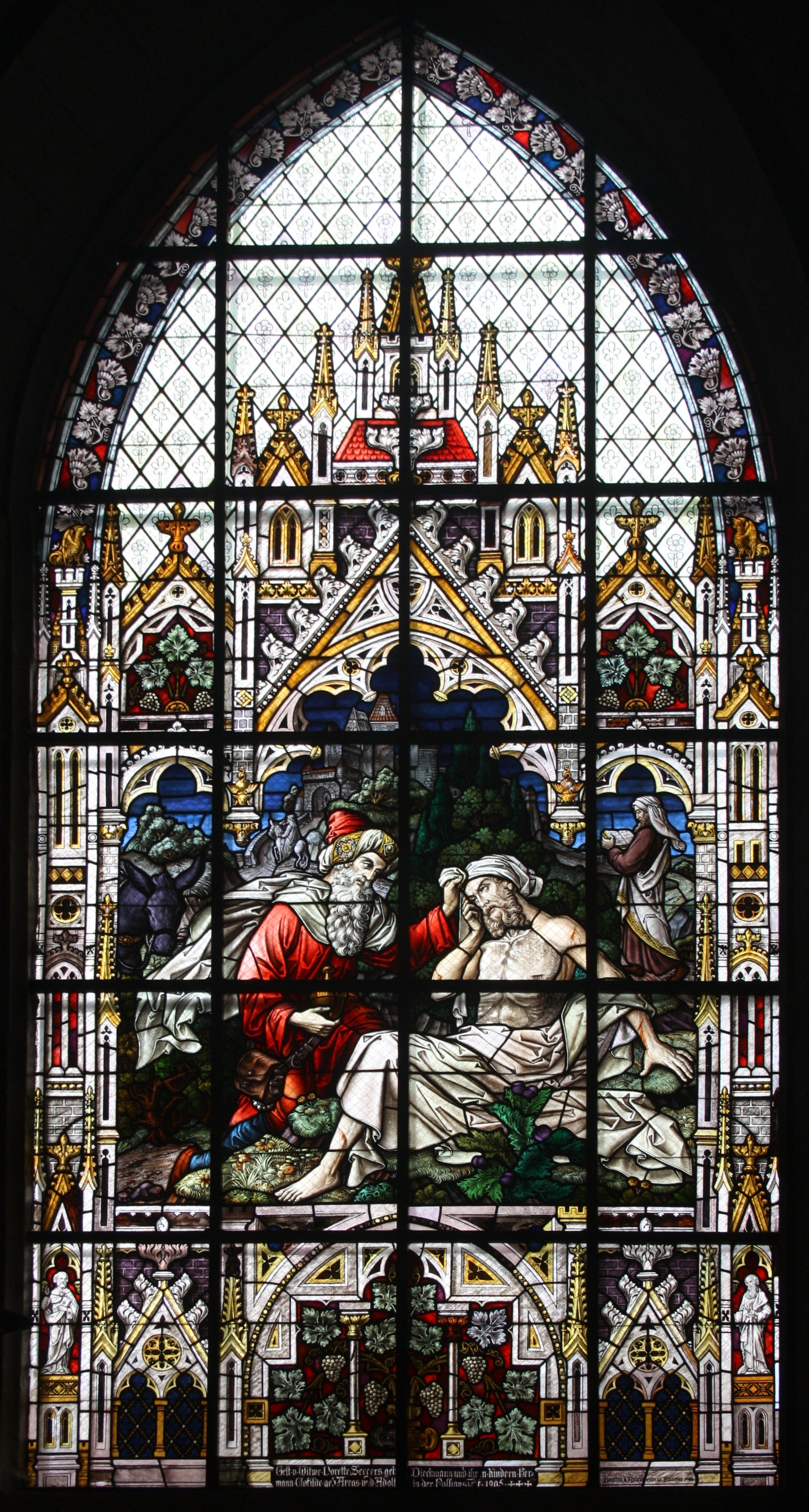 Saint Martin in Stadthagen, Germany. Stained glass window, created 1906.